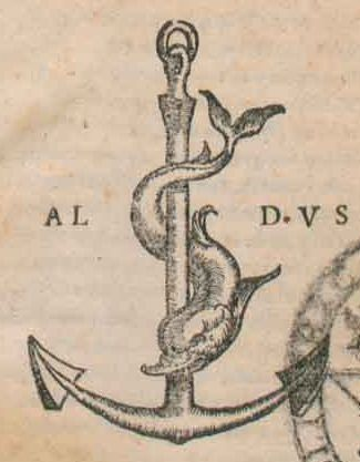 Paolo Manuzio's mark